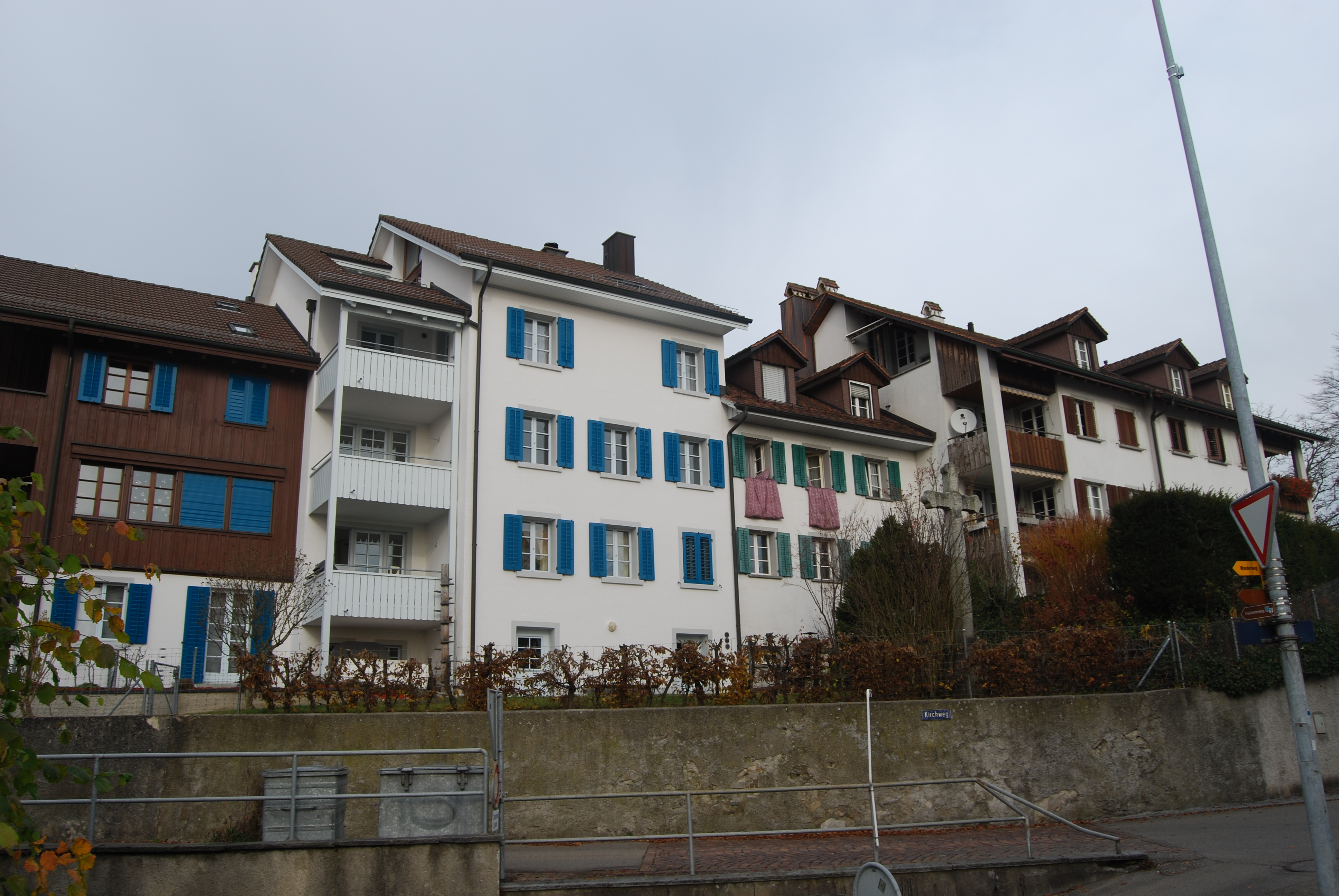 Oberwil, municipality of Oberwil-Lieli, canton of Aargau, SwitzerlandEsperanto: Oberwil, komunumo Oberwil-Lieli, Kantono Argovio, Svislando